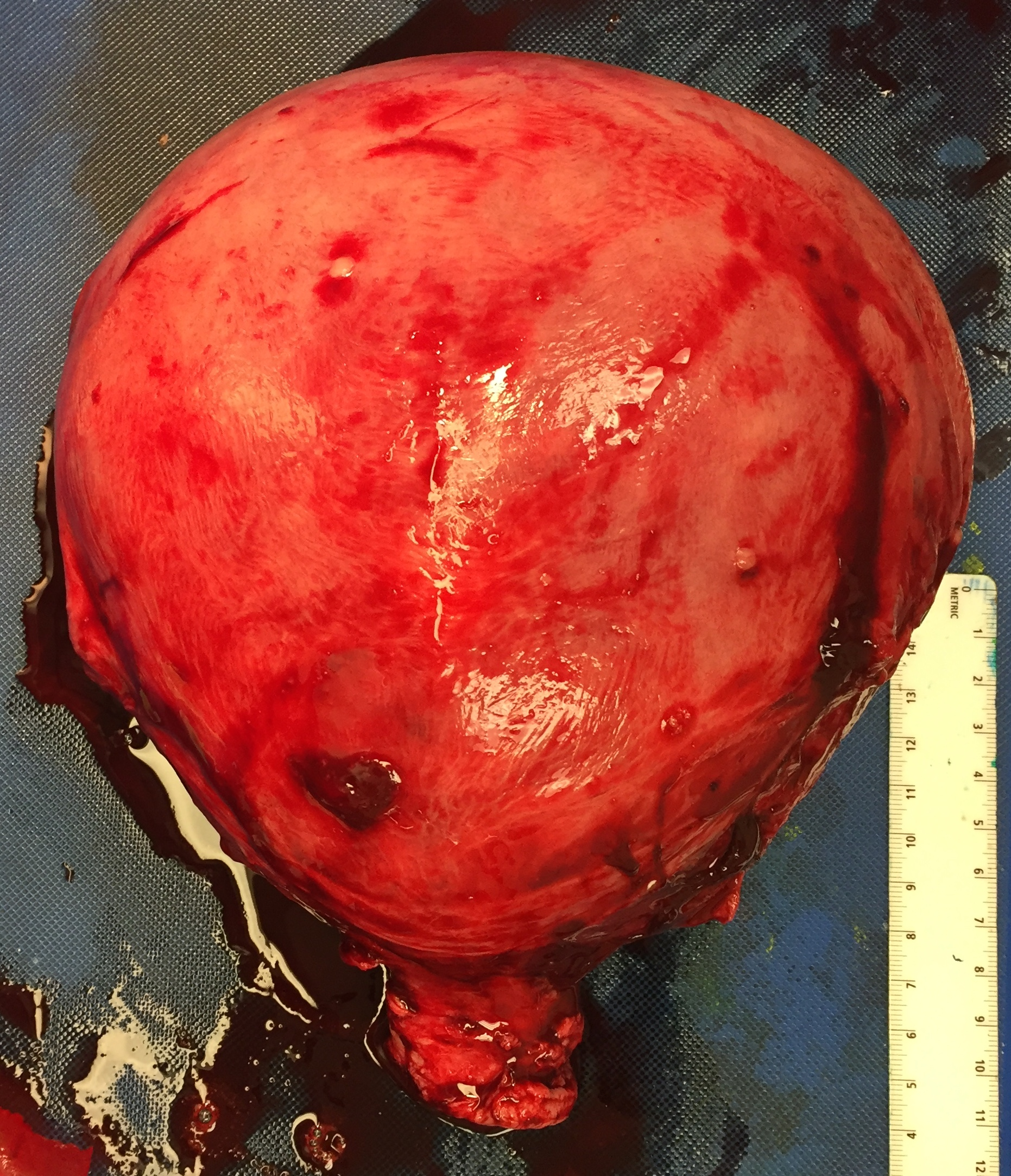 Hysterectomy specimen, fresh specimen, uncut.